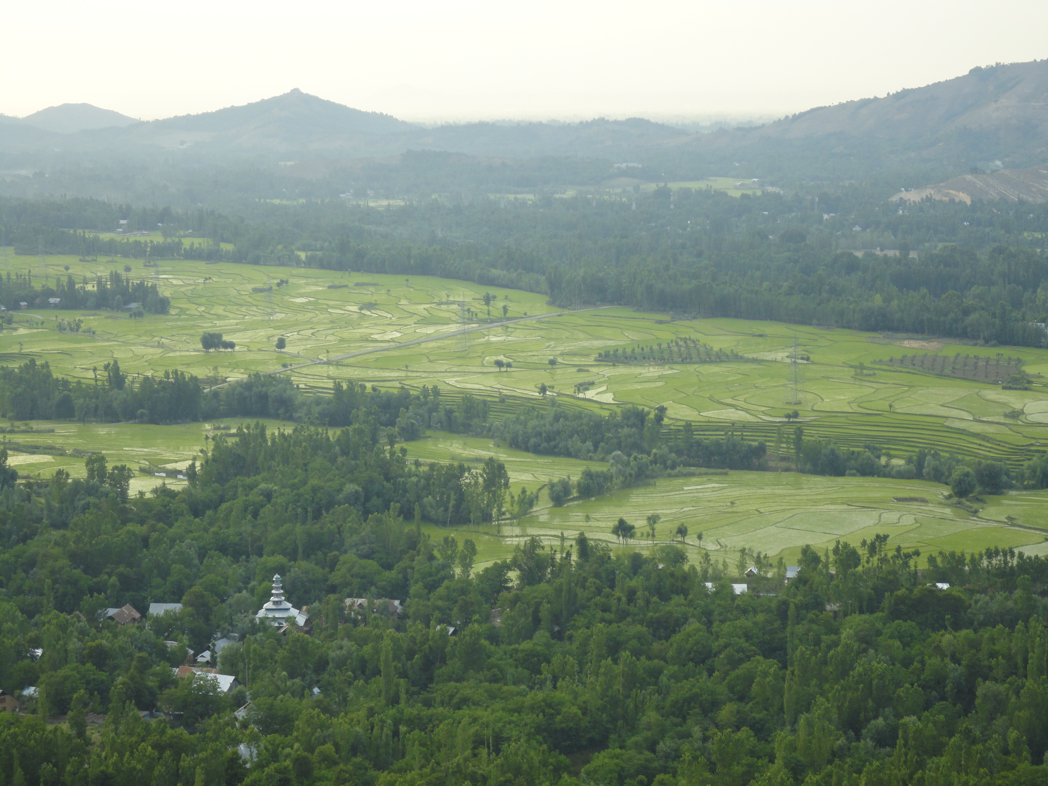 This picture shows a view of town of Verinag from near Jawahar Tunnel.